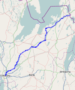 VGJ main line